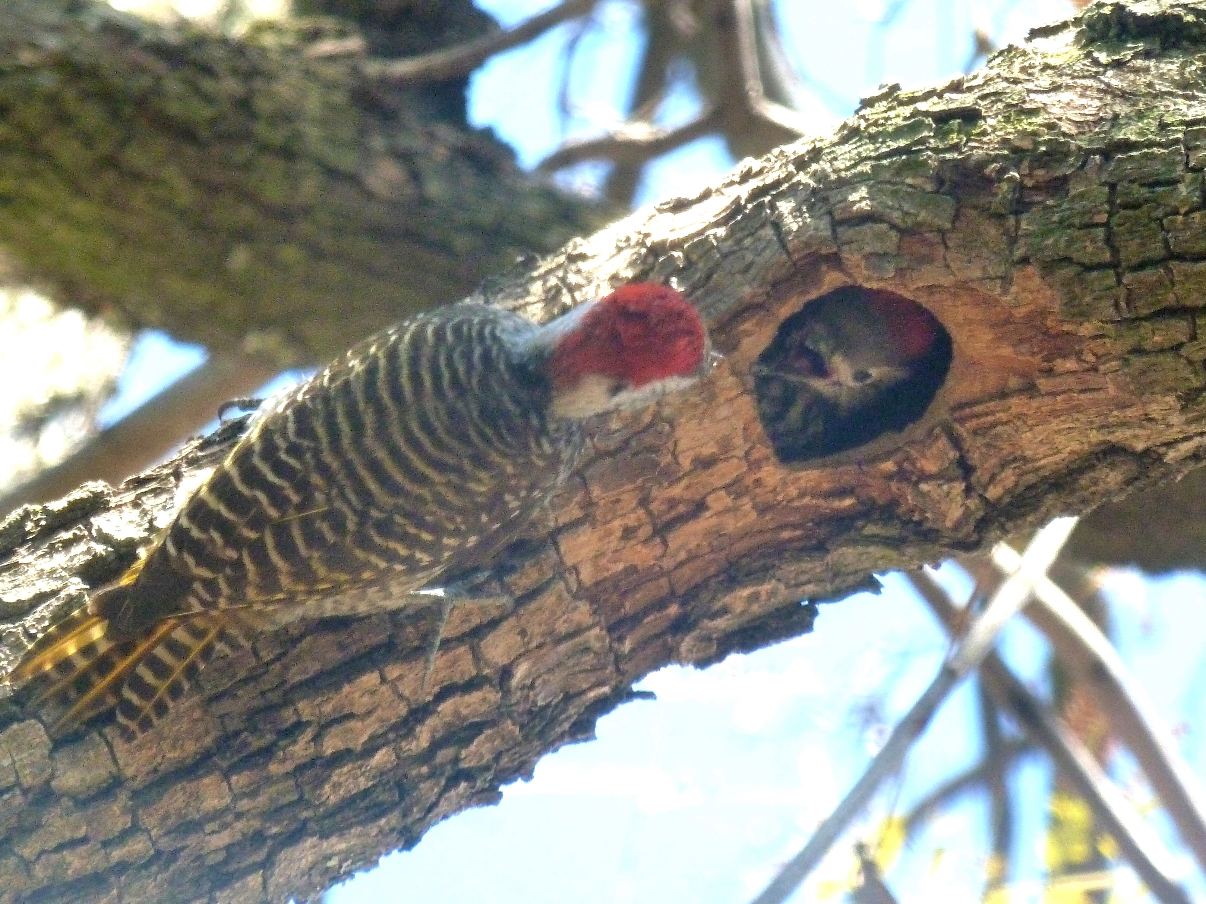 A male Cardinal woodpecker feeding a male chick in a nest, Pretoria. The nest with oval-shaped entrance was excavated on the underside of a Jacaranda branch, initially by the female. The chick fledged one day after the photo was taken.